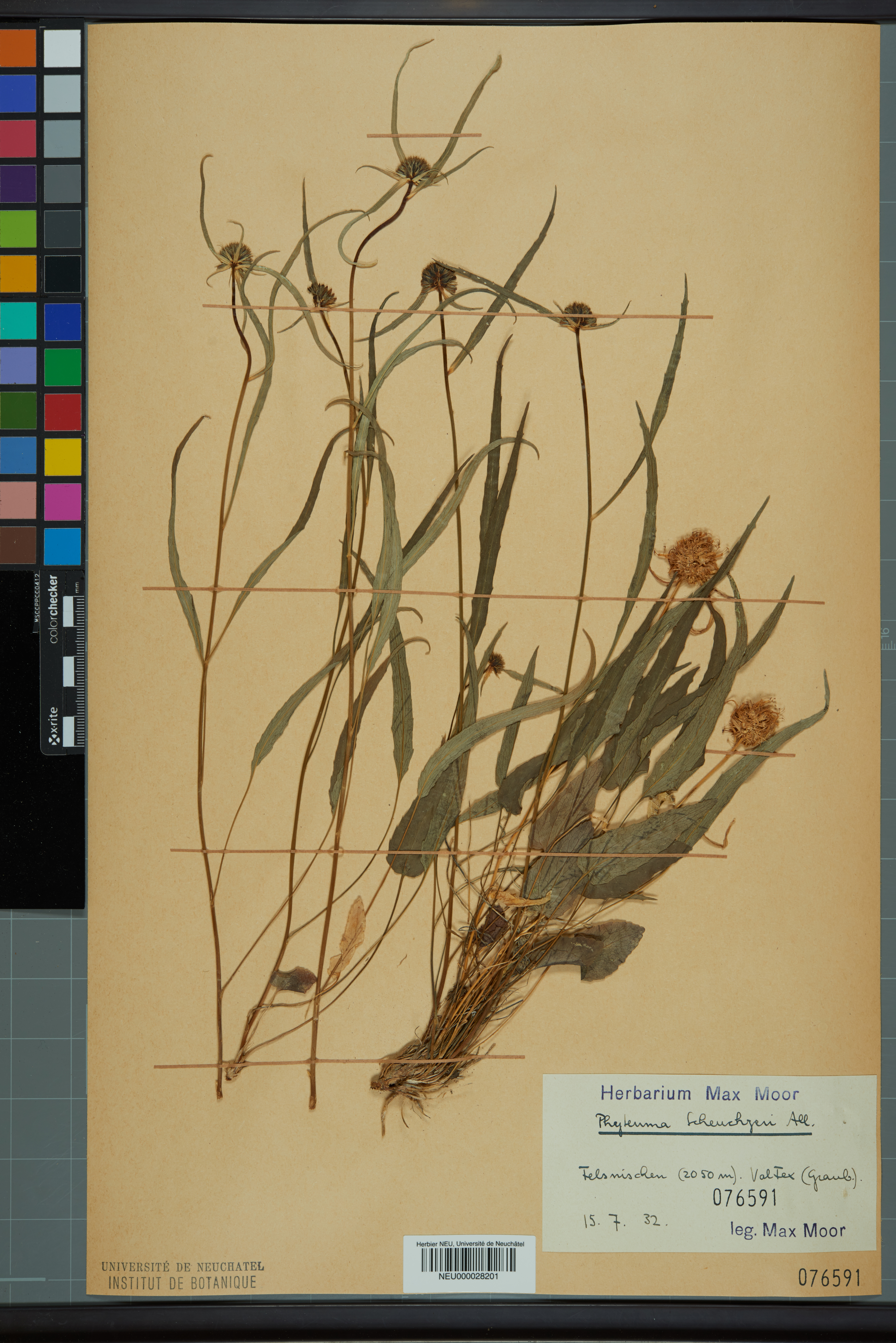 Dried pressed specimen of Phyteuma scheuchzeri